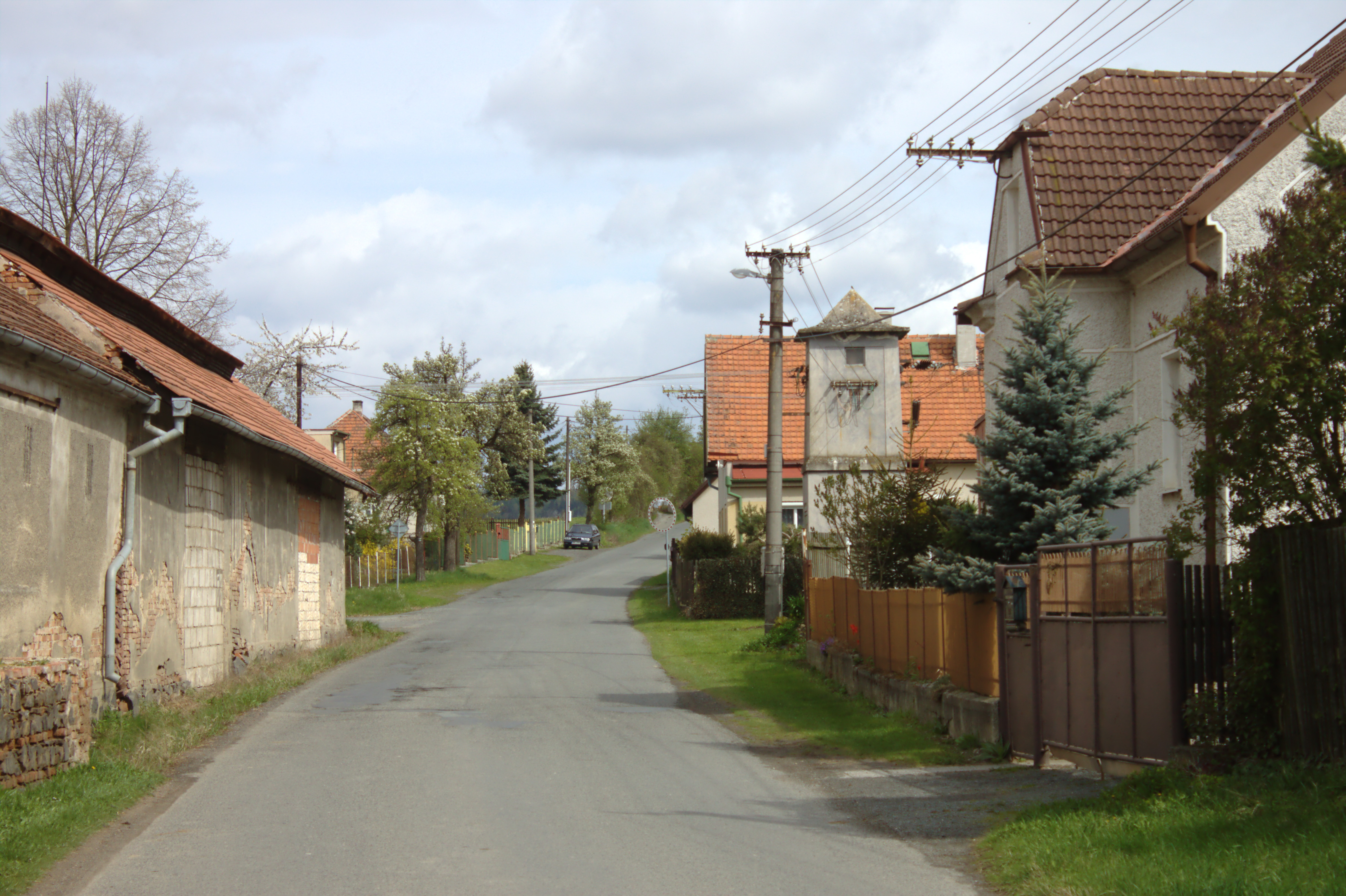 Buildings in the village of Vlčí, Plzeň Region, CZ